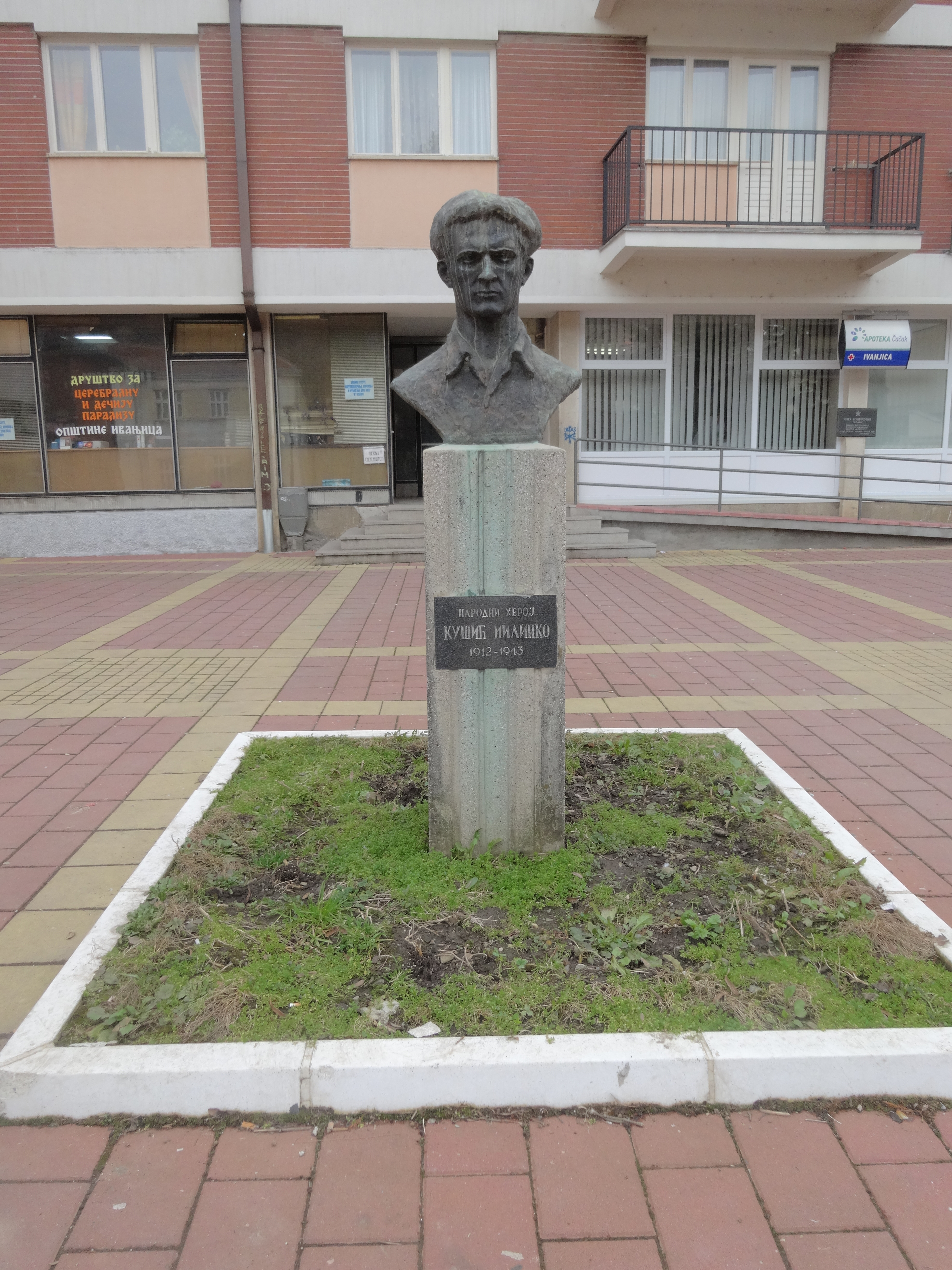 WMRS Education program in Gymnasium Ivanjica.